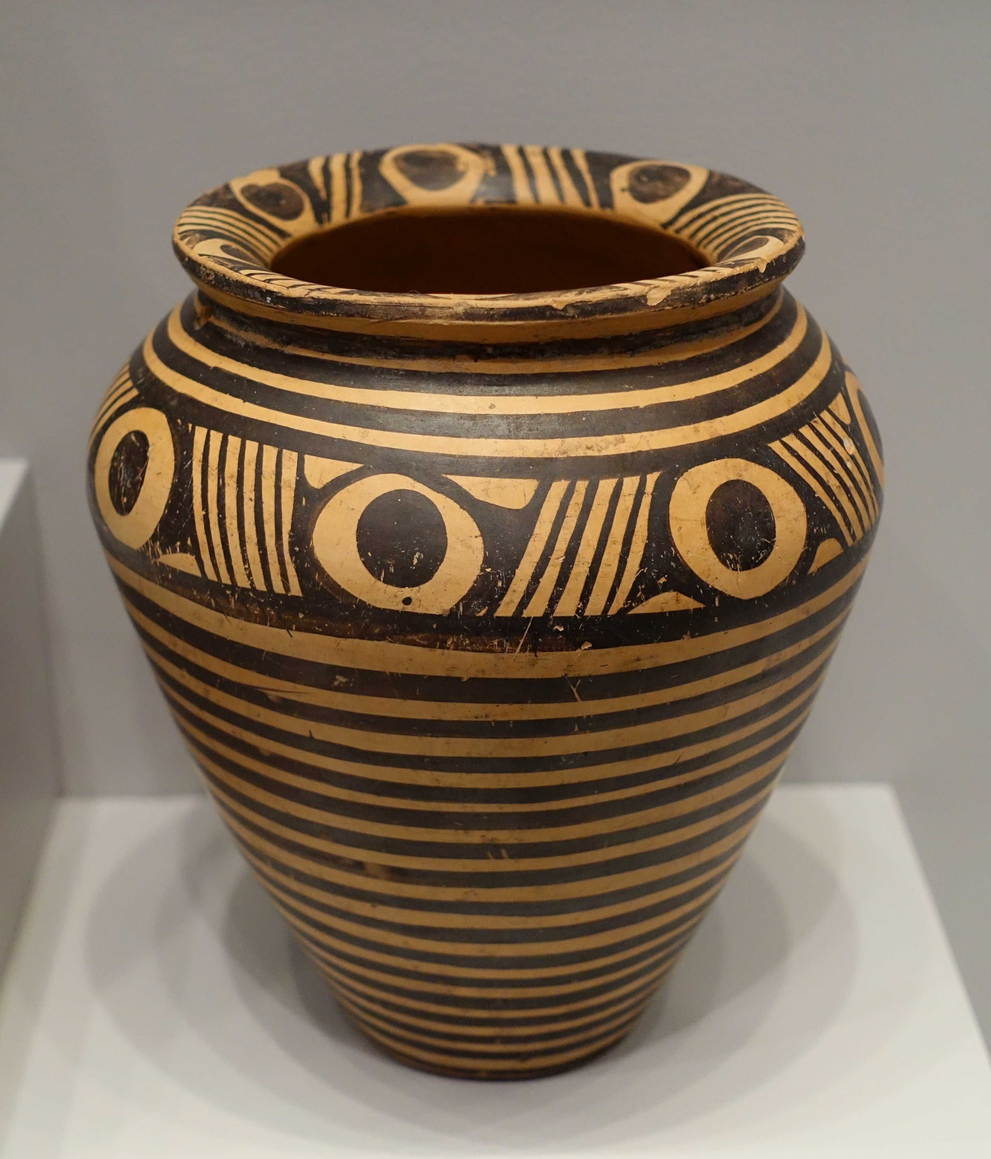 Exhibit in the Arthur M. Sackler Museum, Harvard University, Cambridge, Massachusetts, USA. This artwork is in the public domain because the artist died more than 70 years ago.